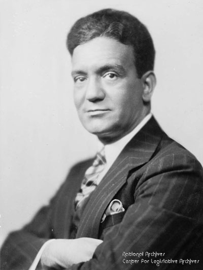 Ferdinand Pecora, chief counsel on Subcommittee on Senate Resolutions 84 and 234, The Pecora Committee